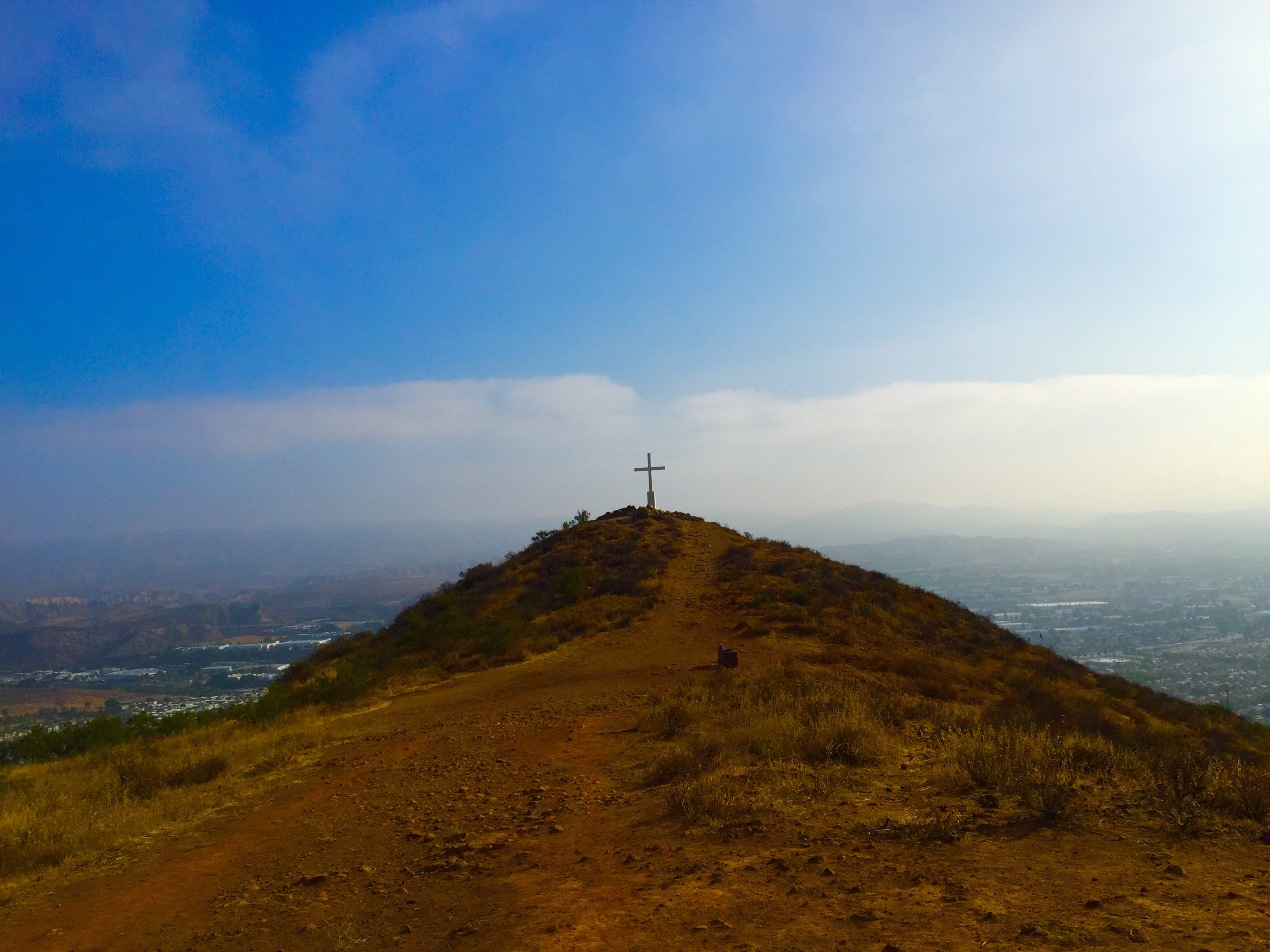 The cross on Mount McCoy with Simi Valley in distance.